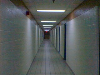 I took the picture with a digital camera, the image URL is